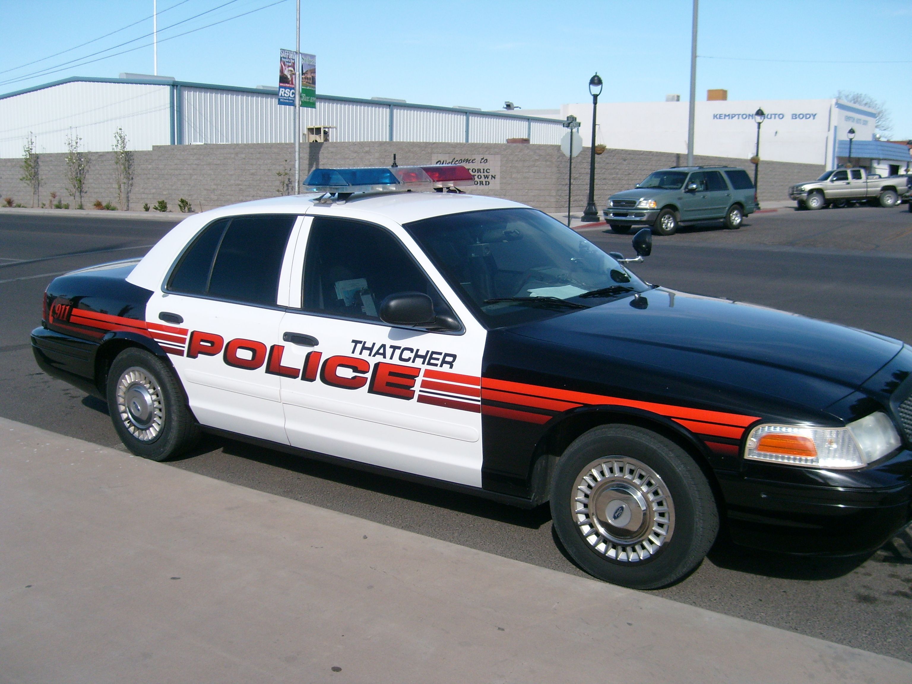 Picture of a Thatcher, Arizona police car.